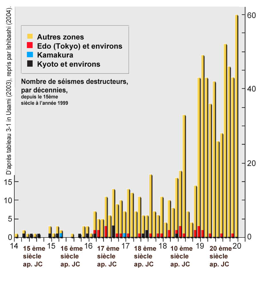 Number of destructive earthquakes (in every ten years), since A.D. 1400 through 1999 in Kyoto and vicinity, the Kamakura area, the Edo (Tokyo) area and other areas in Japan based on table 3-1 in Usami (2003) ; from Katsuhiko Ishibashi Status of historical seismology in Japan ; ANNALS OF GEOPHYSICS, VOL. 47, N. 2/3, April/June 2004.